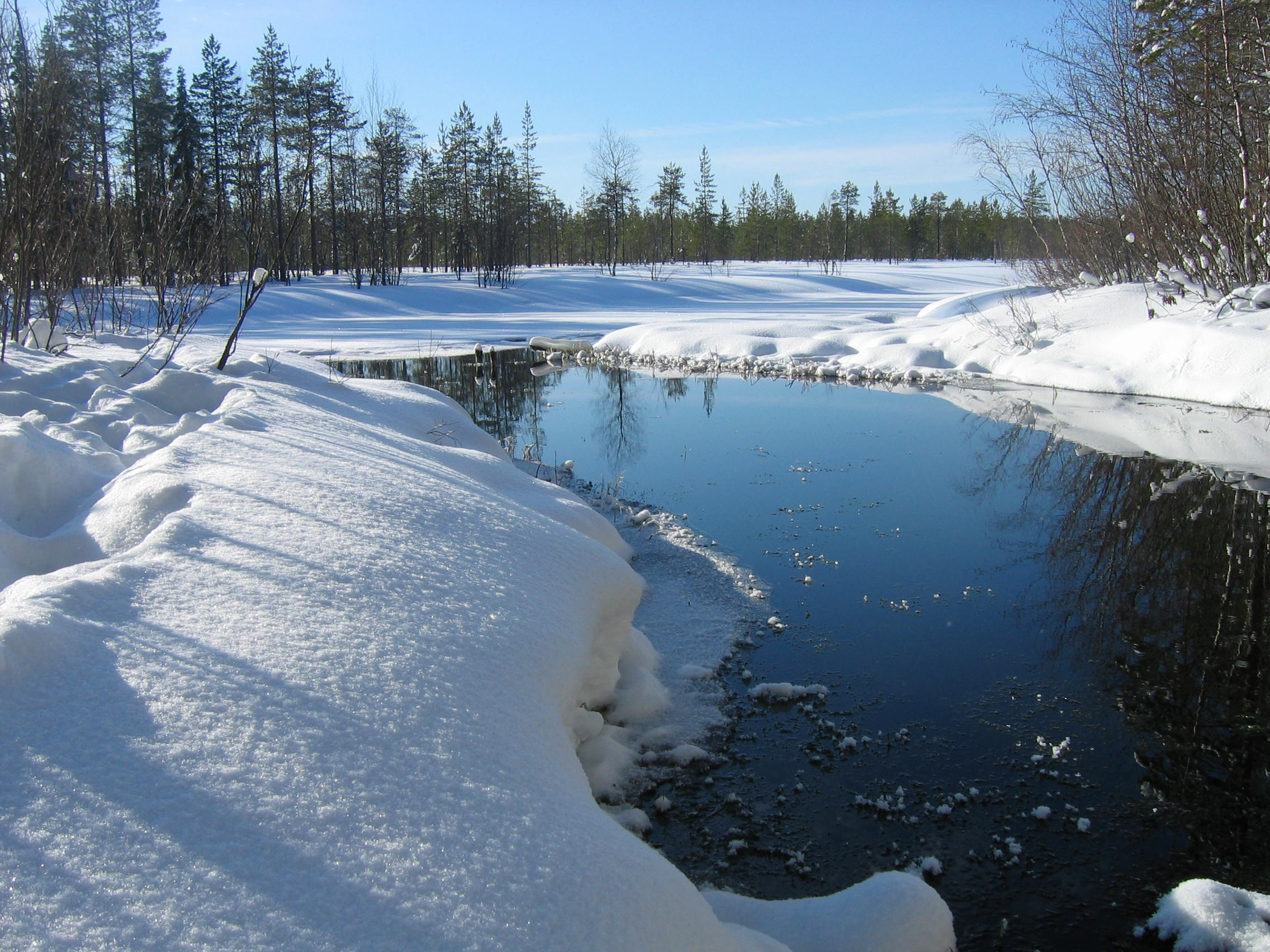 The "Lahnahete" spring in the Sanginjoki river in Utajärvi, Finland.